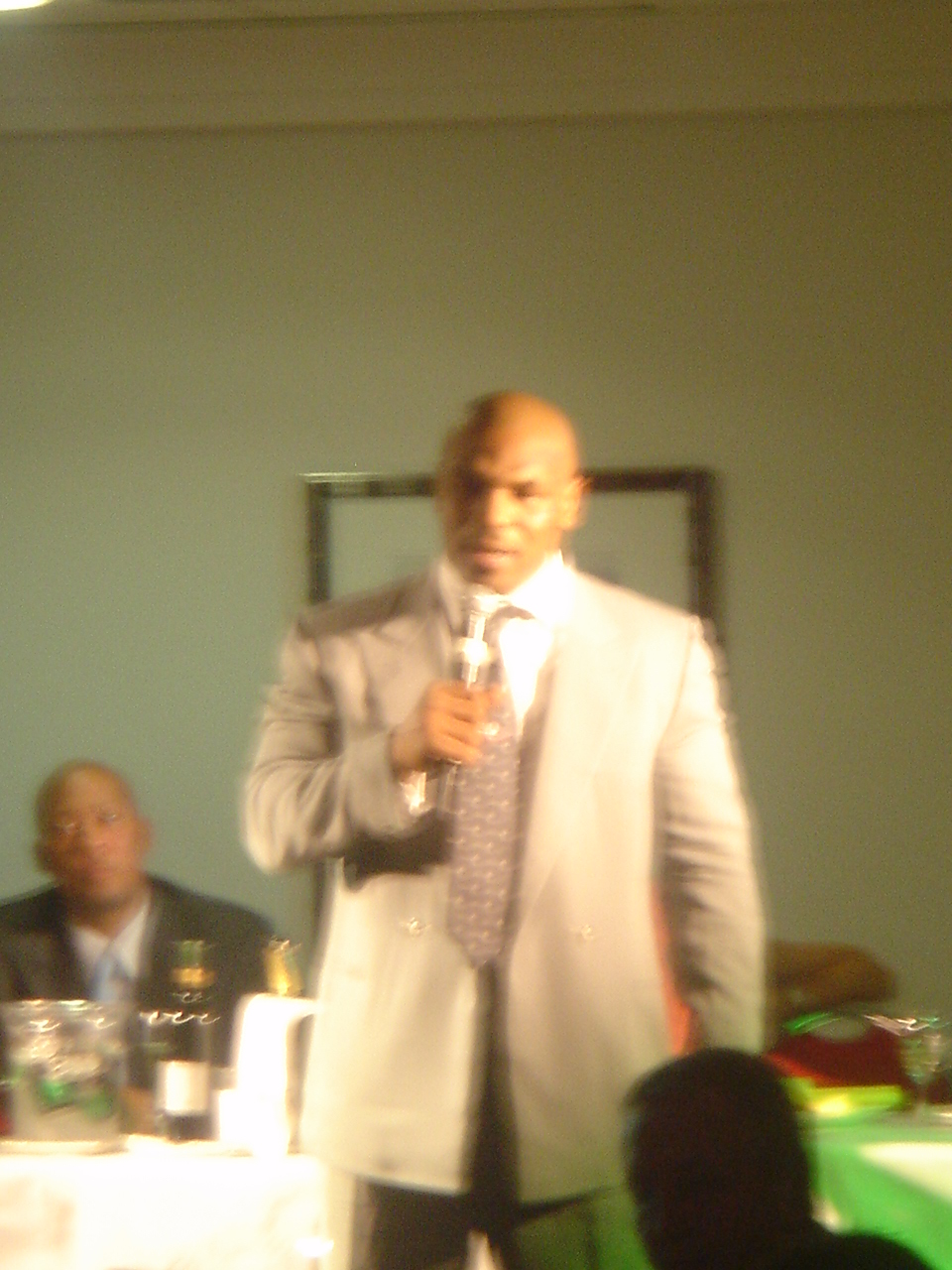 Mike Tyson giving an after dinner speech in 2005